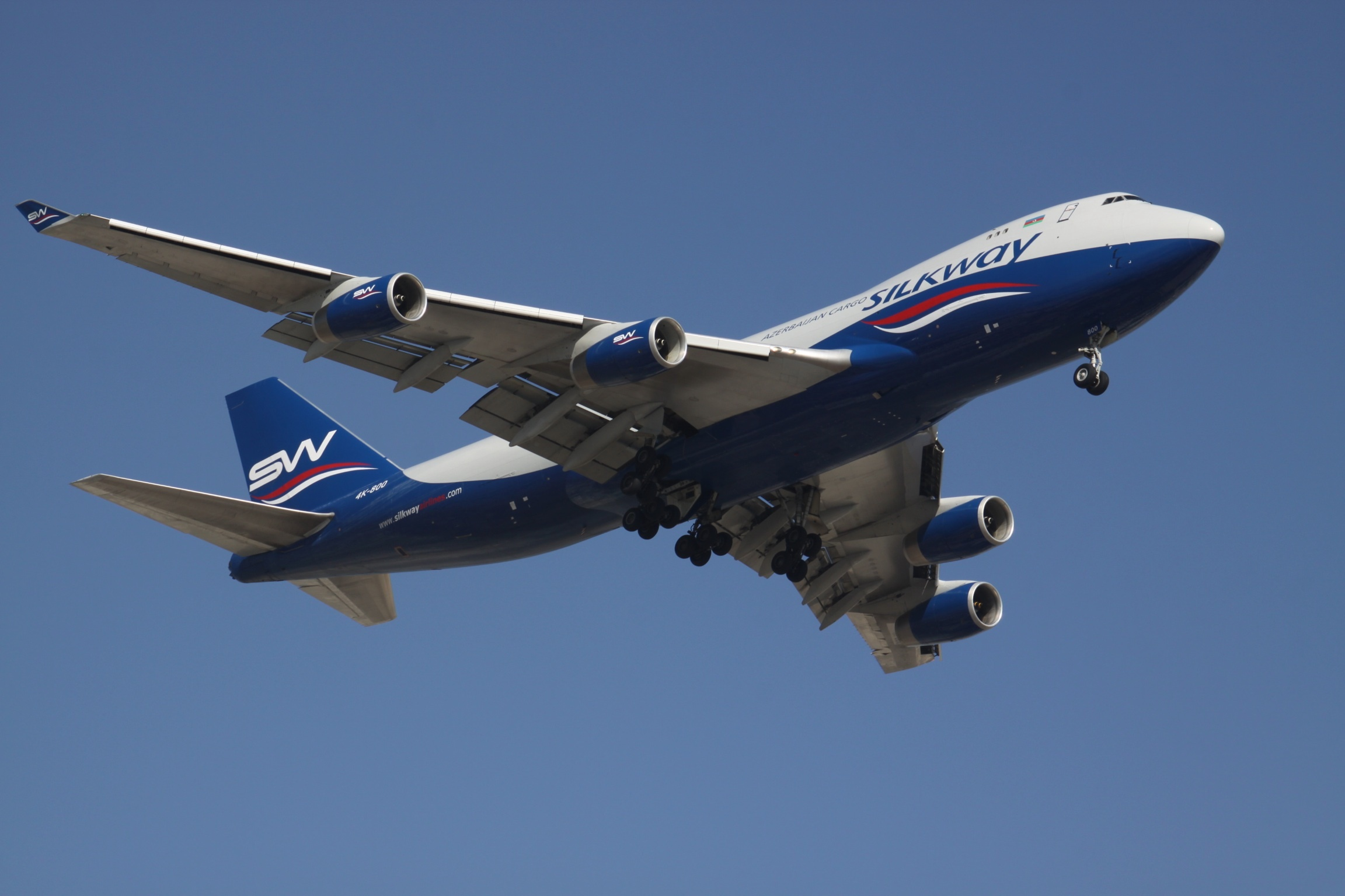 At Dubai International DXB